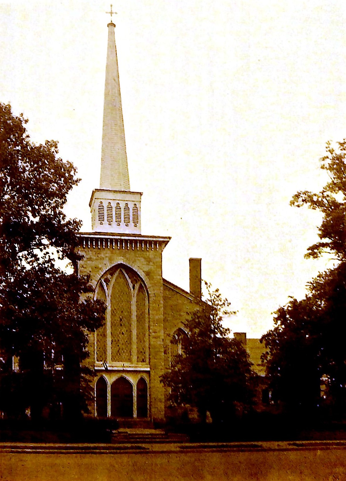 Christ Church in Easton, Maryland erected 1840